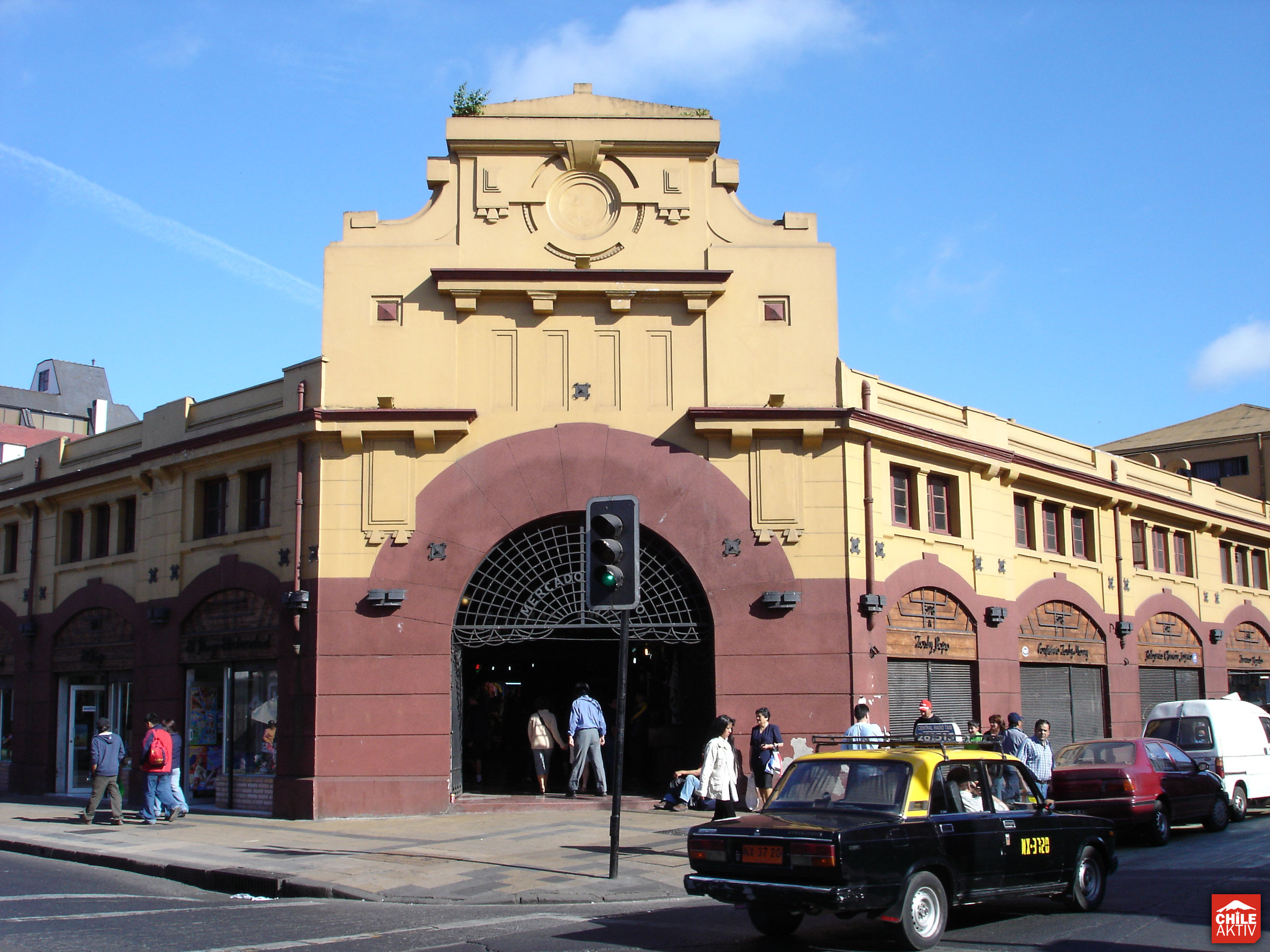 Check out for more